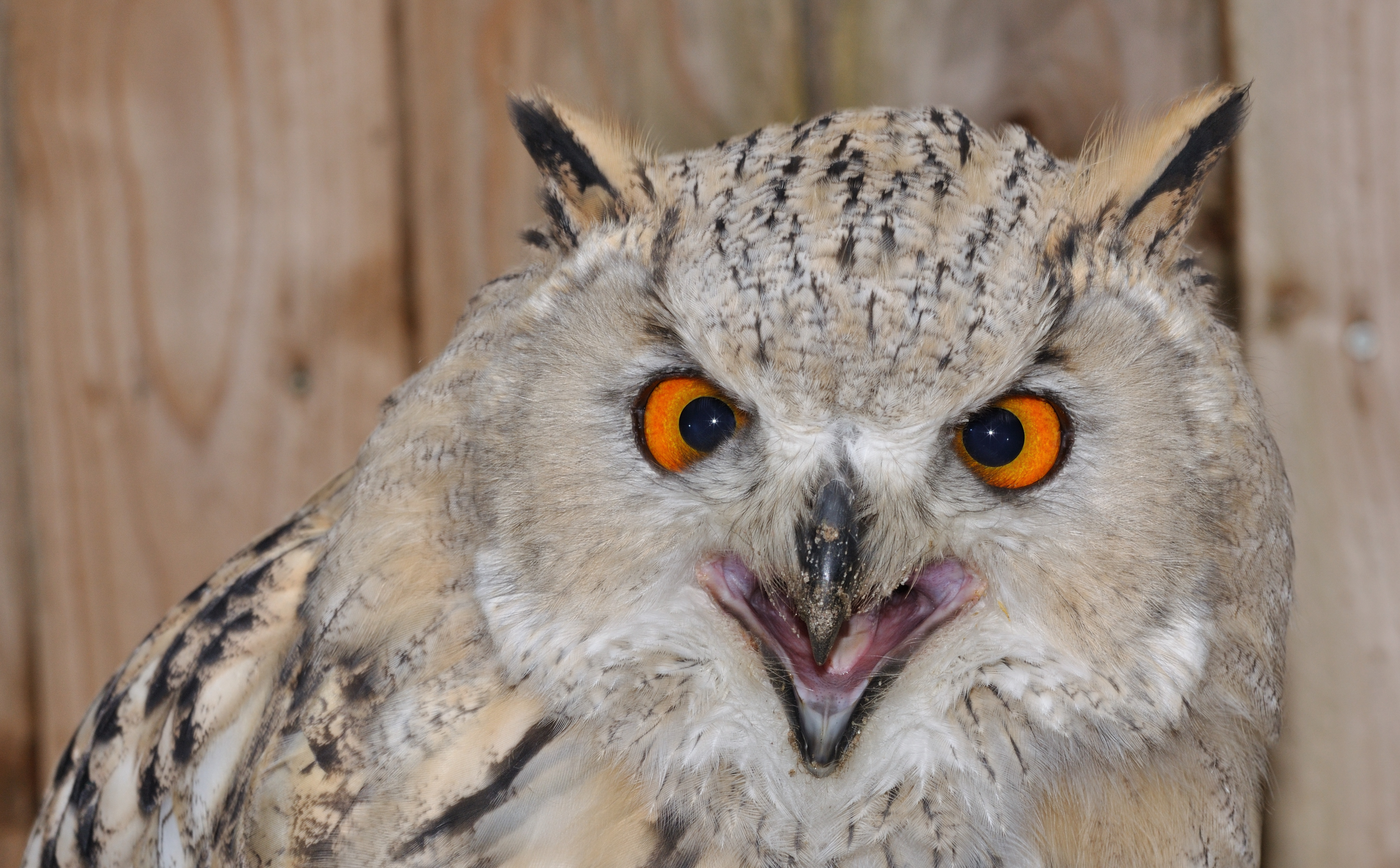 Siberian Eagle-owl (Bubo bubo sibiricus) in the falconry Falkenhof Feldberg, Germany.